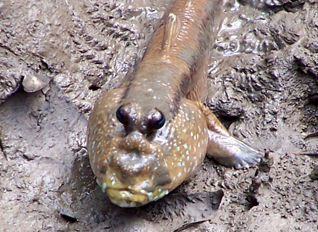 Periophthalmodon sp. Saw in Singapore, got a video as well.